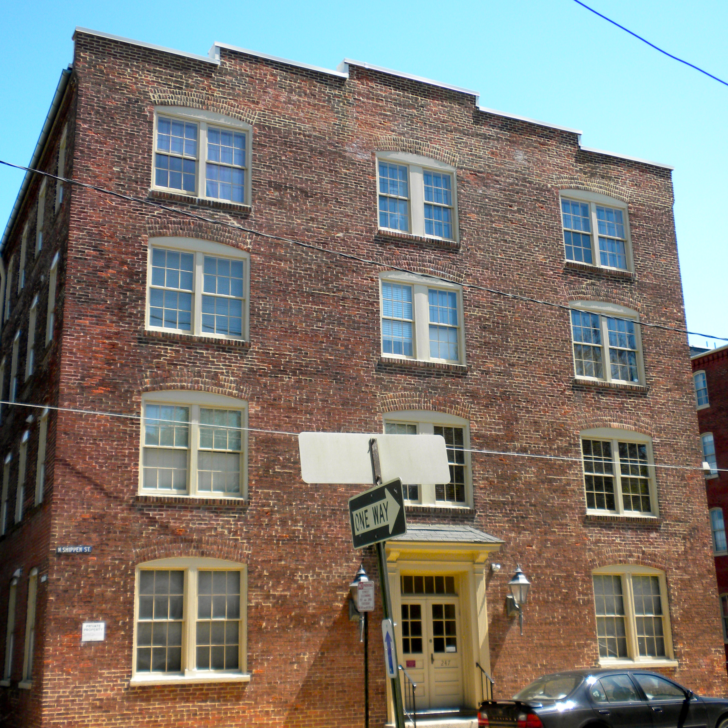 A. B. Hess Cigar Factory, and Warehouses on the NRHP since August 24, 1982. On NRHP listed at address of 231 North Shippen Street, Lancaster, Pennsylvania, but also lists several buildings, including this one at 237 N. Shippen Street.